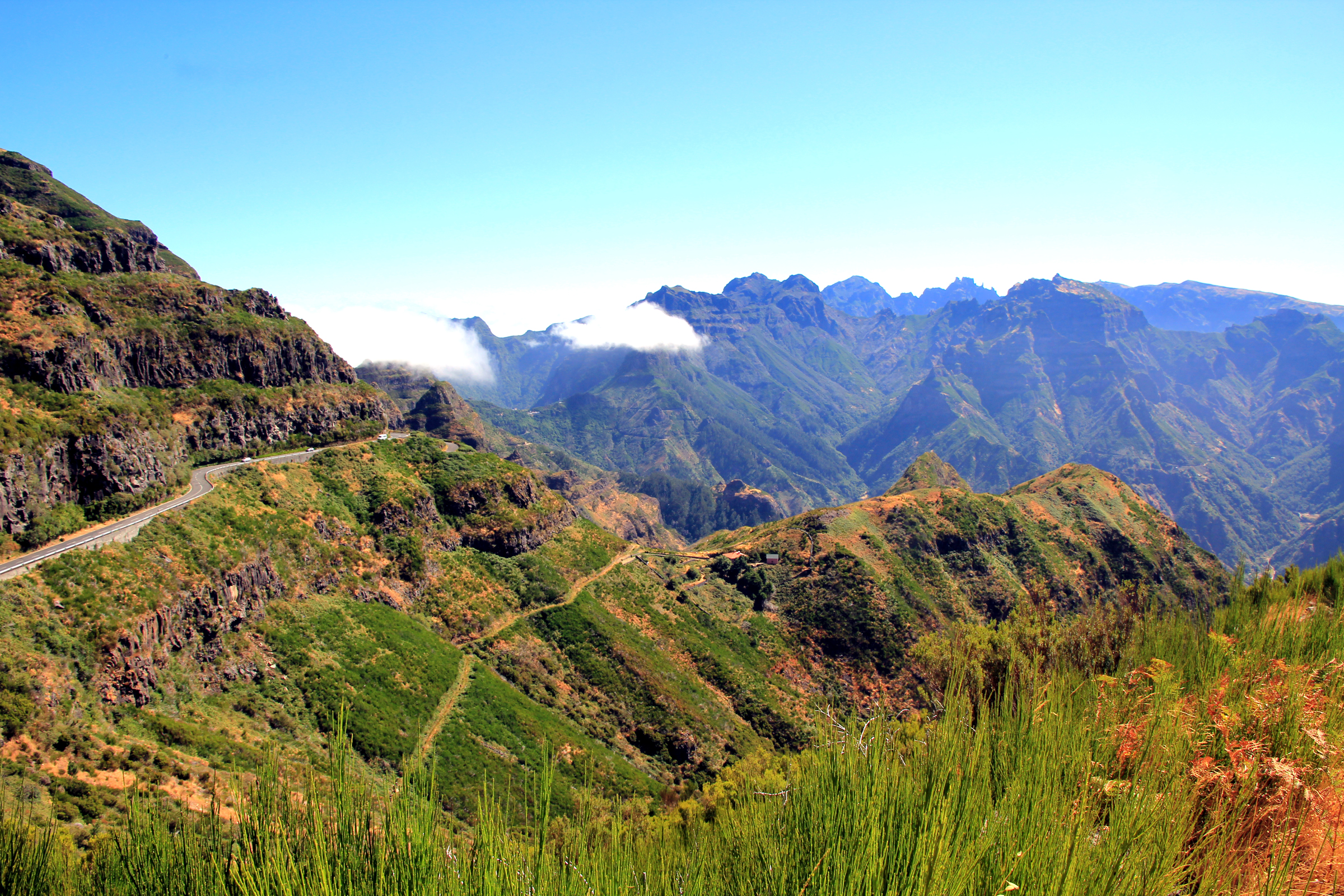 View from point Encumeada in the central Madeira